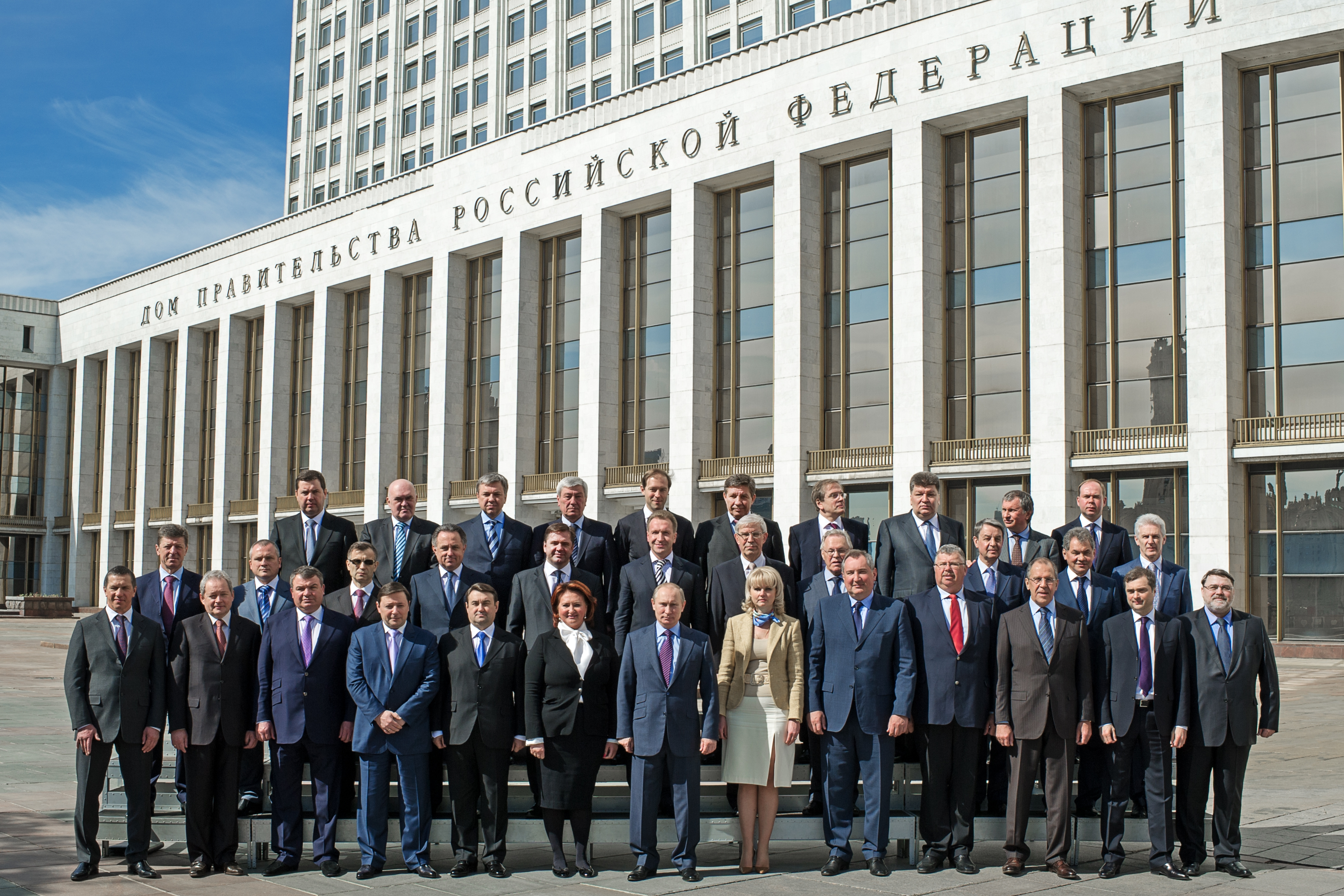 Family photo of members of Vladimir Putin's second Cabinet